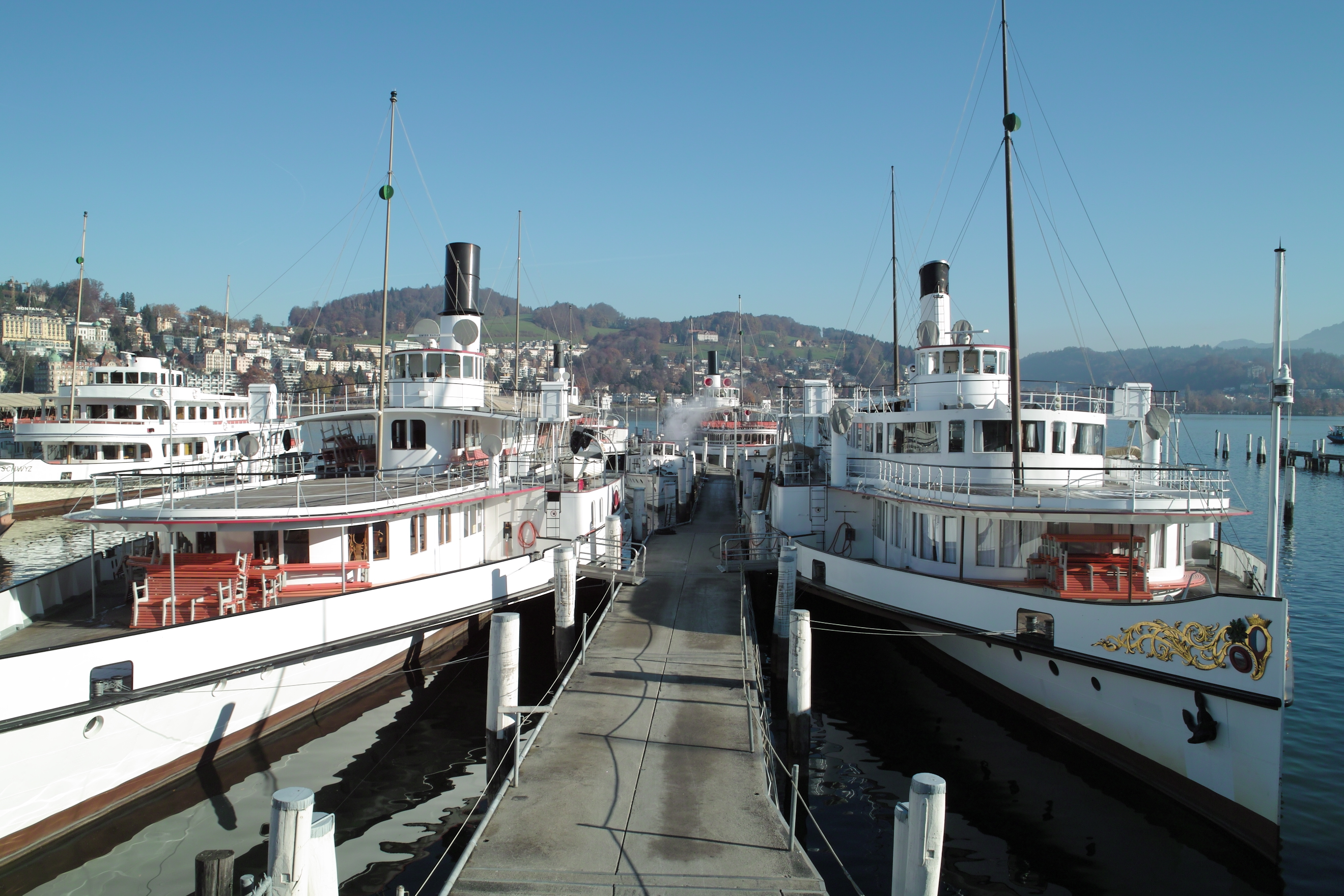 Four of the five active paddle steamers of Lake Lucerne: "Gallia" and "Stadt Luzern" in the foreground, behind them "Uri" and "Unterwalden", all of them laid up for winter, except "Unterwalden", seen here under steam. To the left MS "Schwyz" (1959), and in the centre small MS "Reuss" (1926).